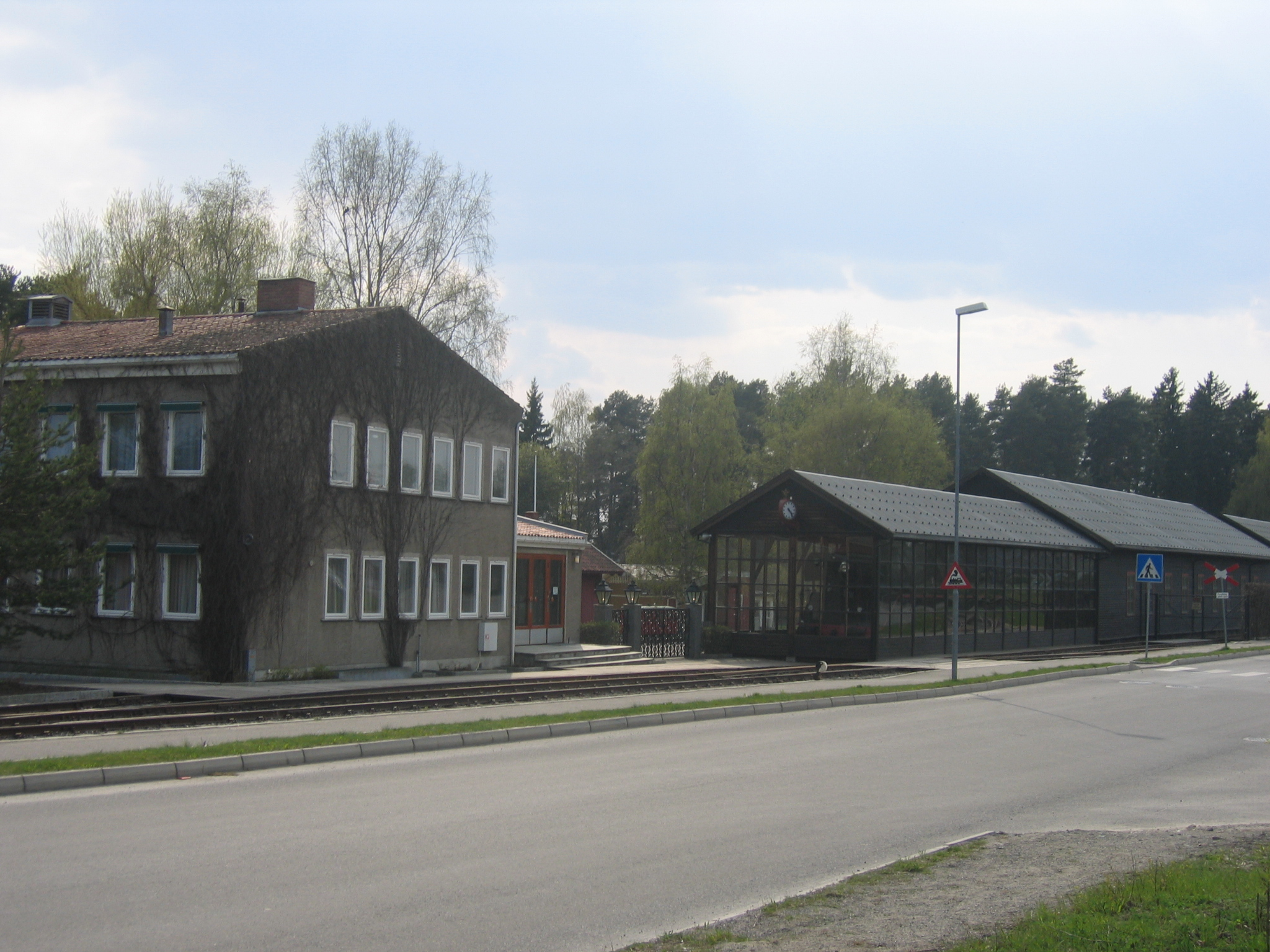 Front of the Norwegian Railway Museum in Hamar, Hedmark, Norway.